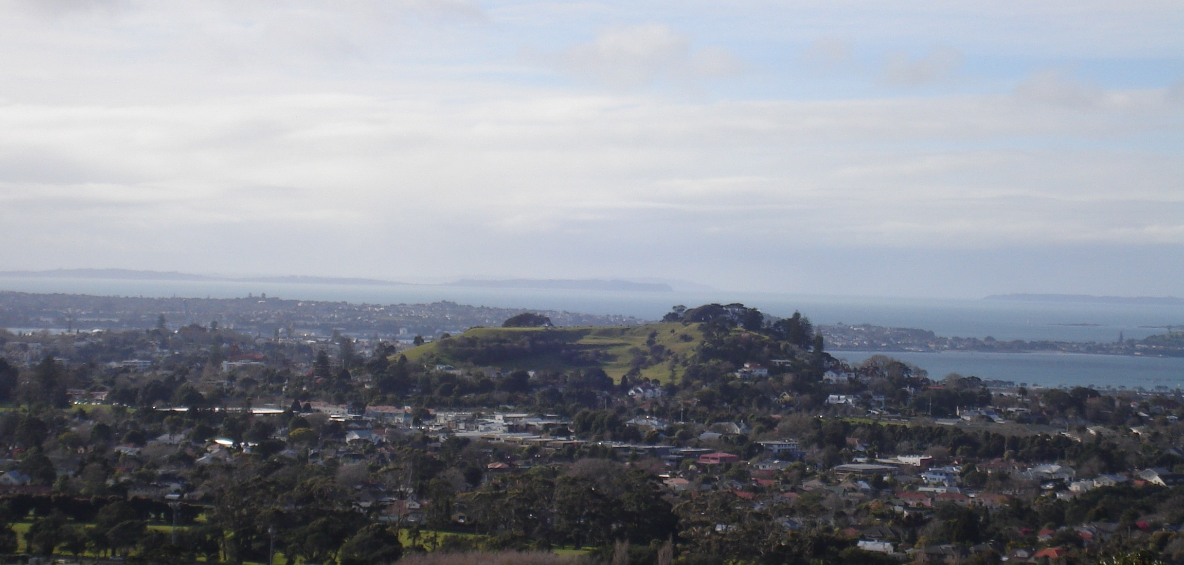 Mt Hobson, Auckland